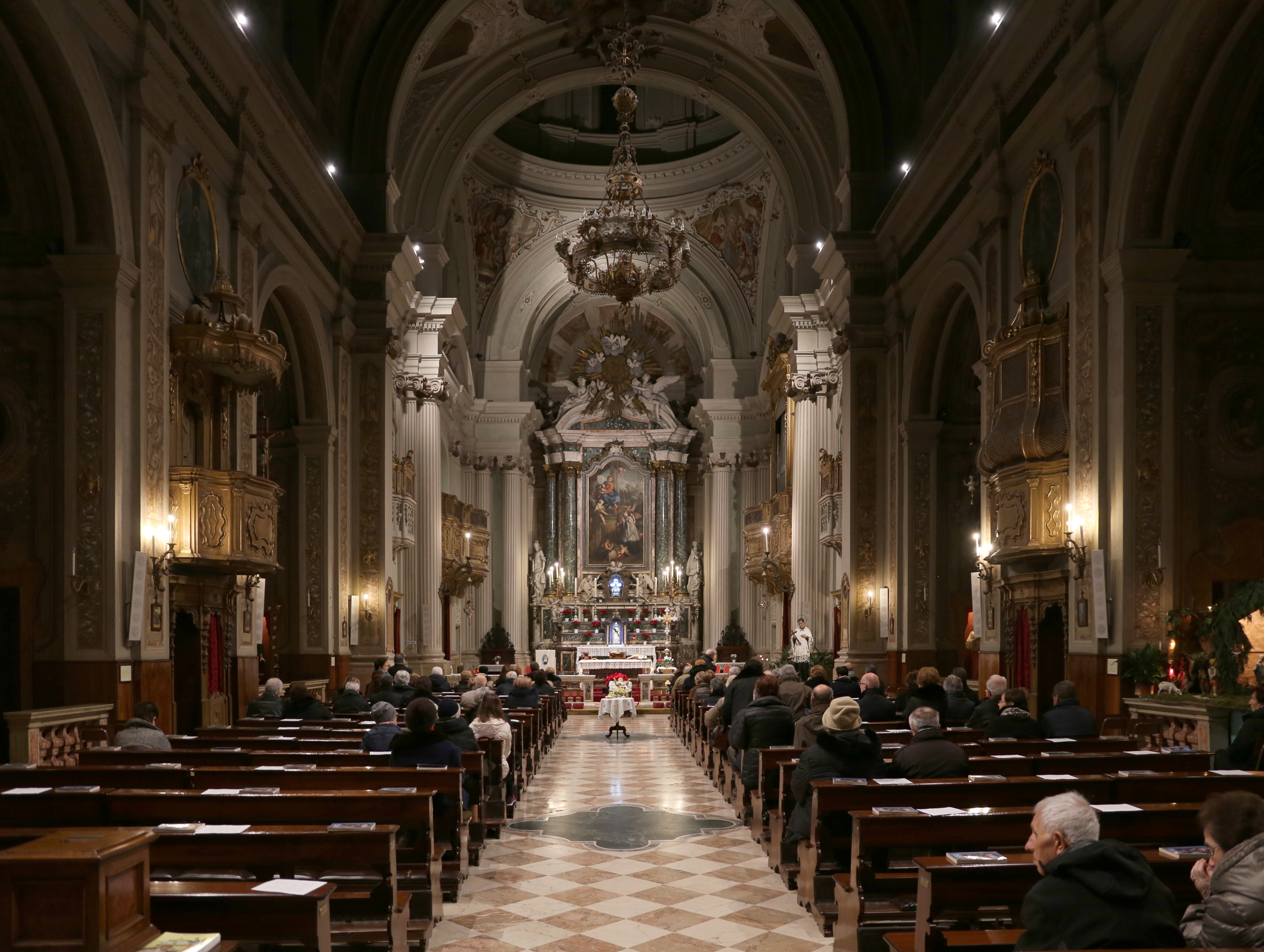 San Luigi Gonzaga (Castiglione delle Stiviere) - Interior